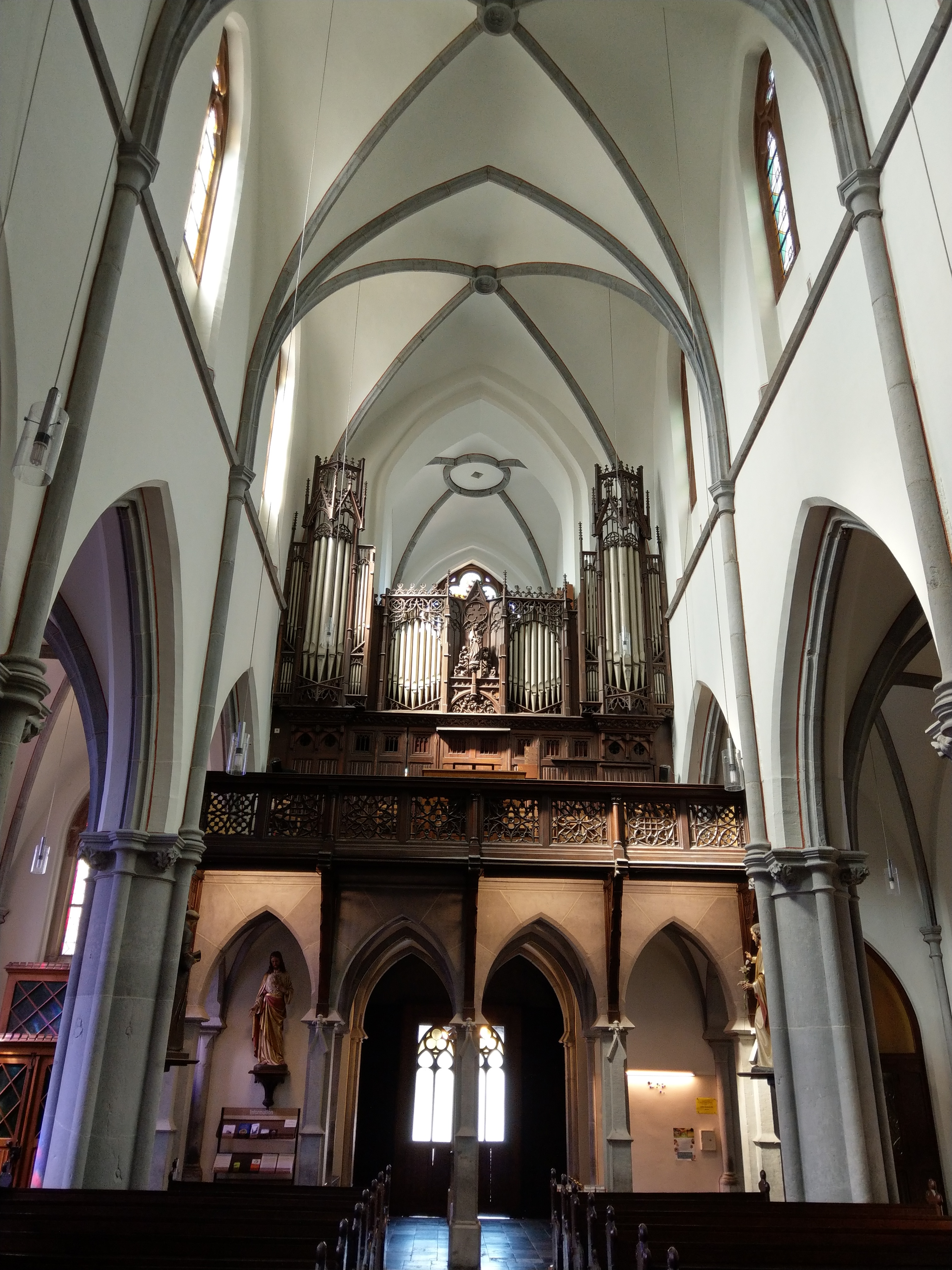 Church with elegant neo-Gothic silhouette. Built in the years 1855 to 1863